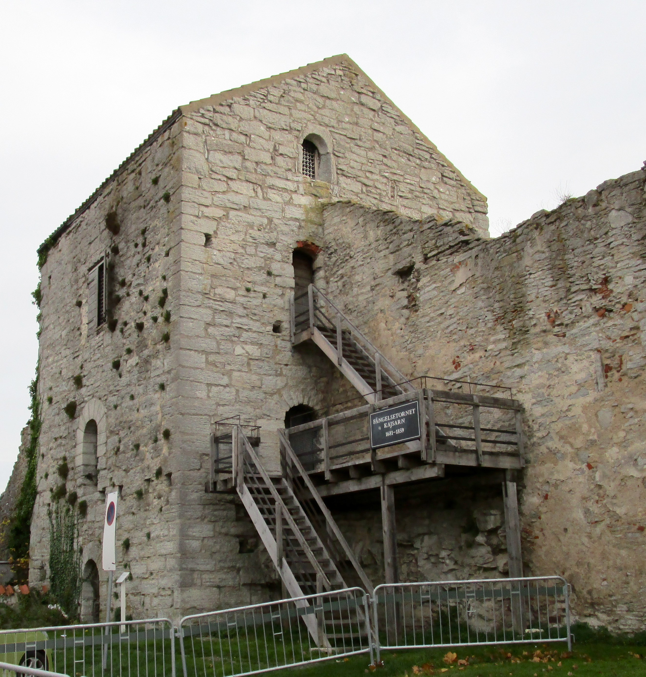 The Kajsar Tower, the ringwall Visby